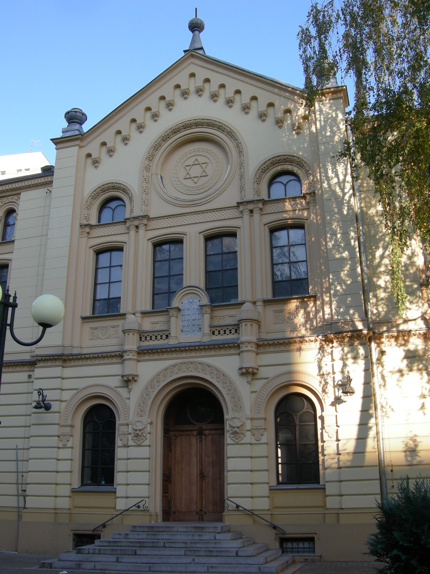 The synagogue Nożyków in Warsaw